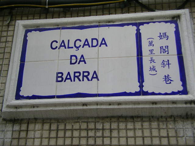 The "Ten Thousand Miles Great Wall" (萬里長城) in Macau.